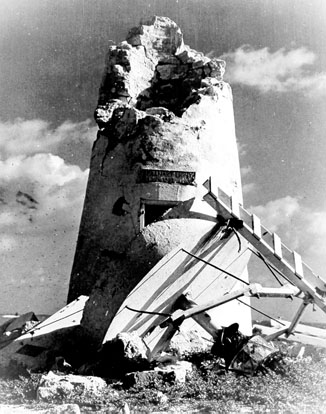 United States Coast Guard collection historic photo of Howland Island Light, showing World War II damage.